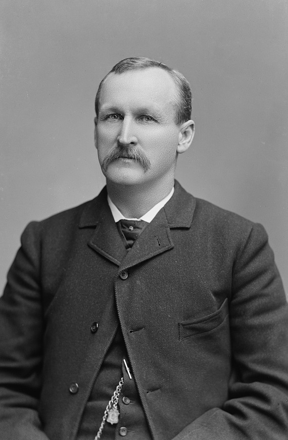 Lewis, Hon. Clarke. Created between January 1891 and January 1894.